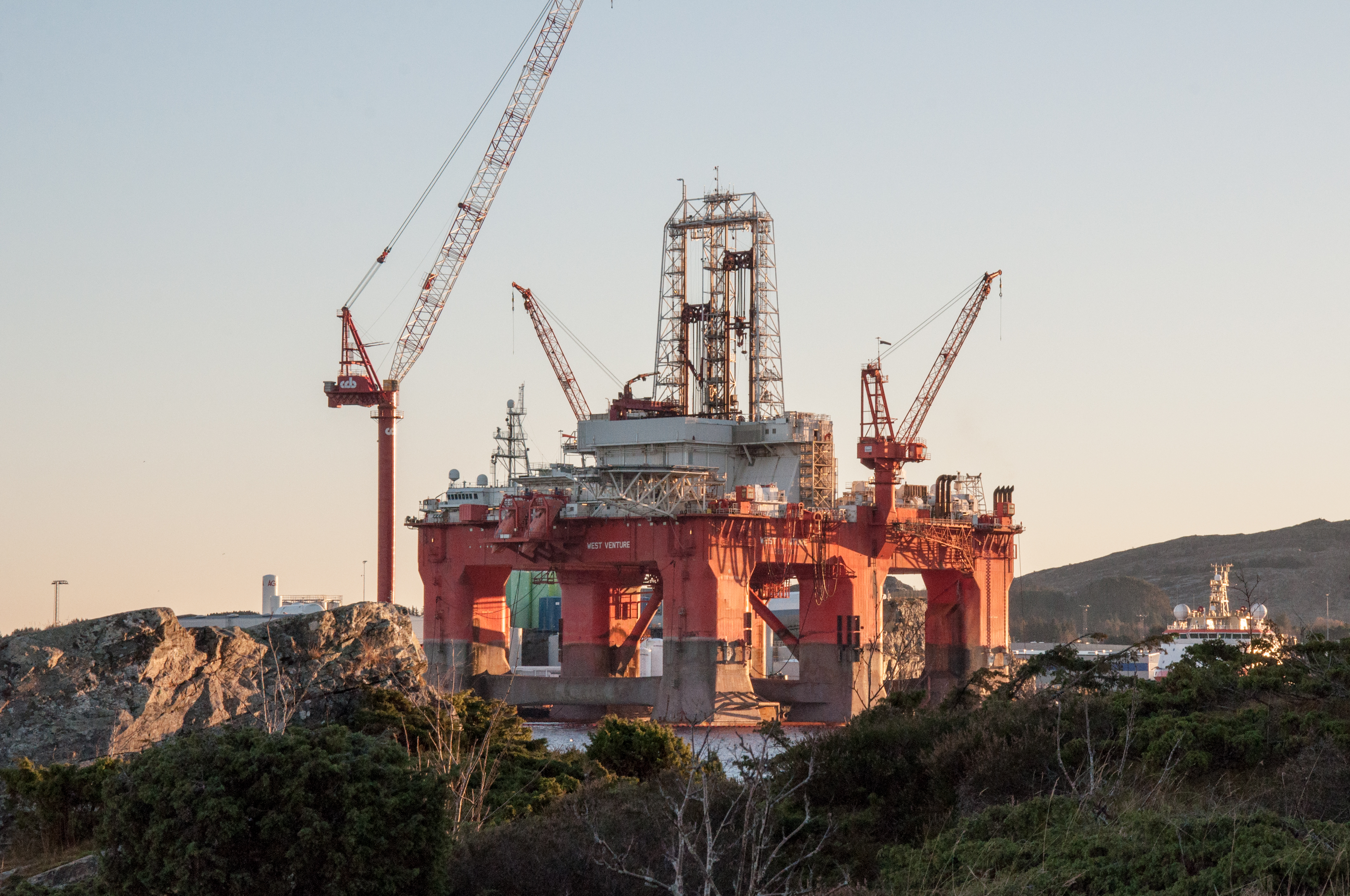 West Venture at Coast Center Base outside Bergen